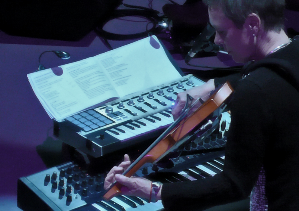 Laurie Anderson performs "Homeland" in Milano, 2007